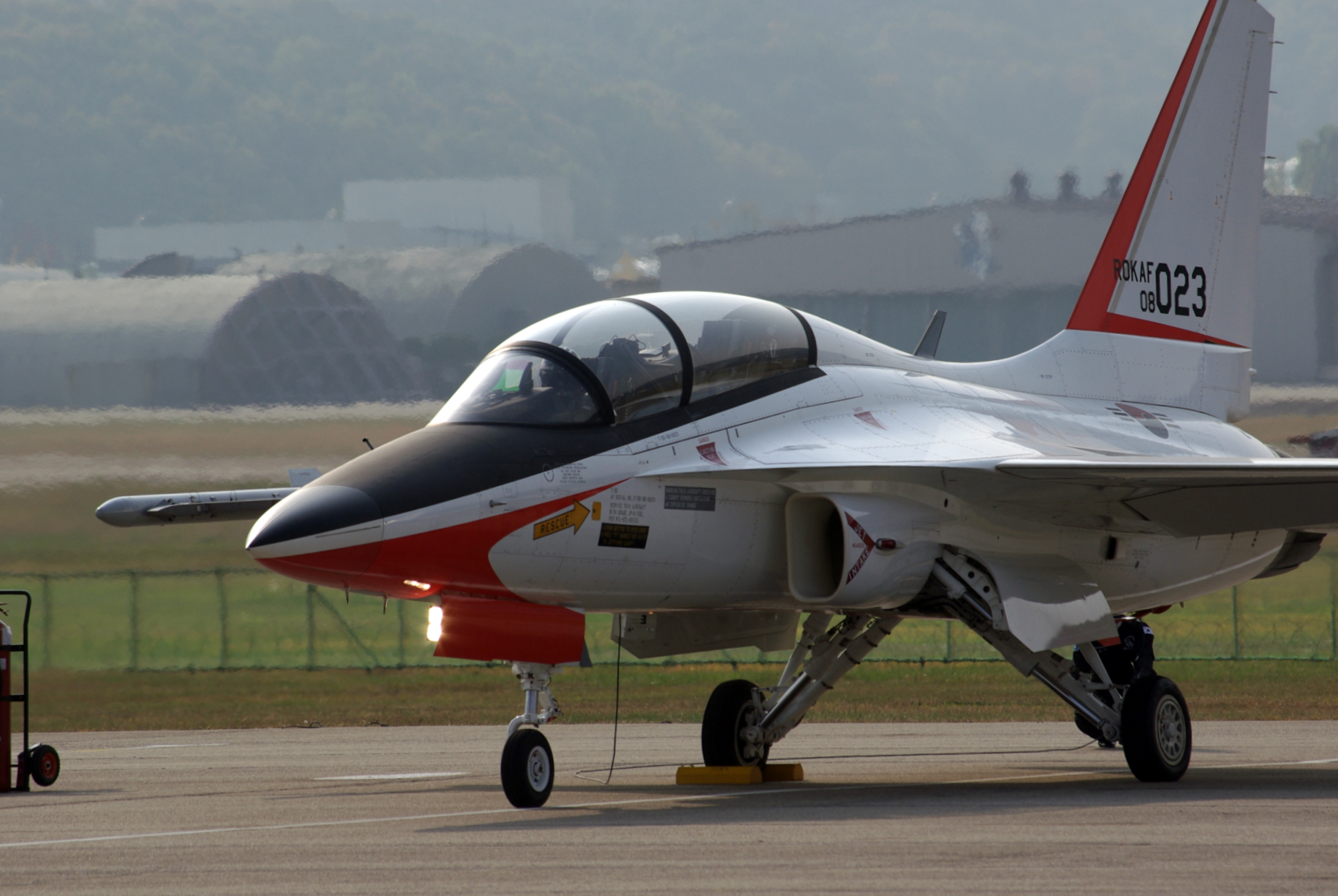 Aircraft of the Black Eagles T-50